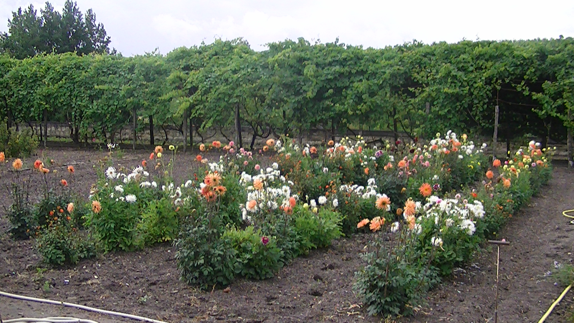 Detail of the gardens in the Abbaye de Saint-Pierre de Bourgueil This building is en partie classé, en partie inscrit au titre des Monuments Historiques. .